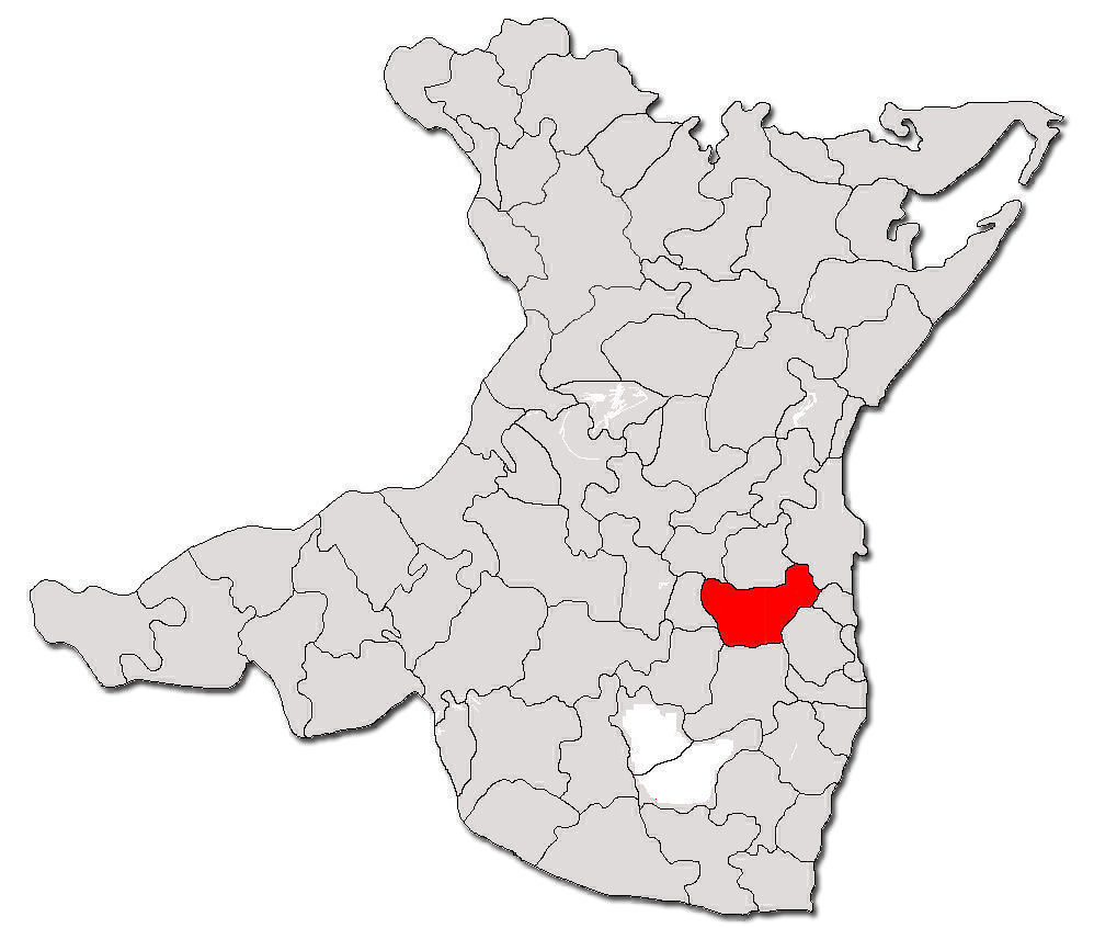 Contour map of commune Cumpana